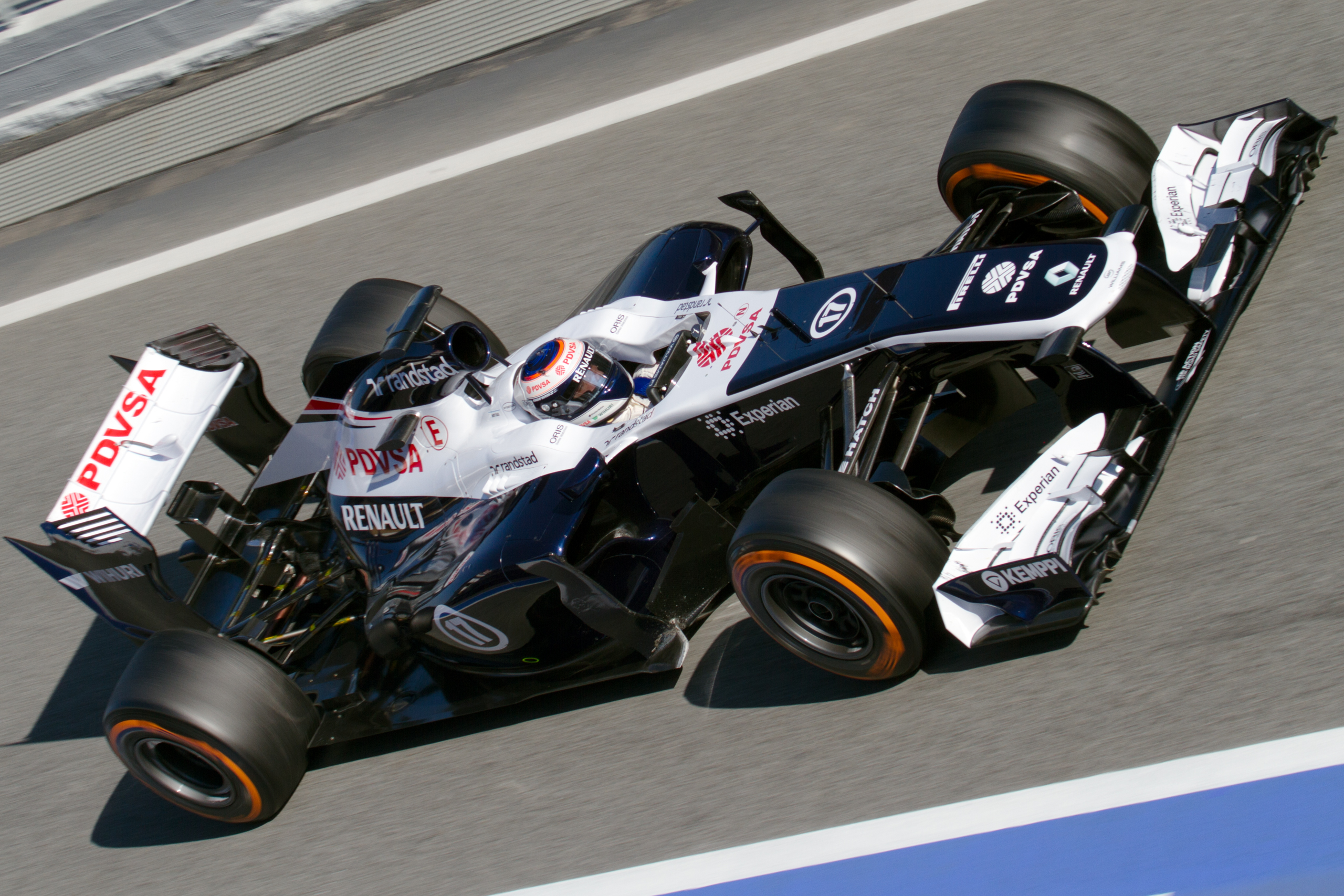 Formula One 2013 Catalonia test (19-22 February): Valtteri Bottas (Williams)